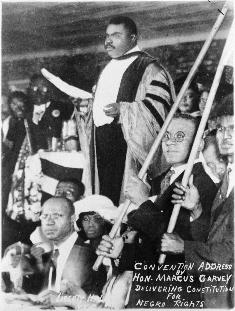 original caption: "CONVENTION ADDRESS BY HON. MARCUS GARVEY DELIVERING CONSTITUTION FOR NEGRO RIGHTS - LIBERTY HALL, NYC", 1920